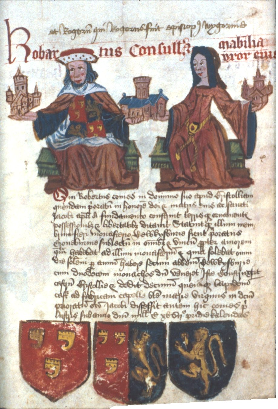 Robert Fitzroy, 1st Earl of Gloucester (before 1100-1147) (alias Robert Rufus, Robert de Caen, Robert Consul), an illegitimate son of King Henry I of England, with his wife Mabel FitzHamon. Latin text top: Robartus Consull et Mabilia uxor eius ("Robert Consul and Mabel his wife"). They are shown holding churches or abbeys which they founded or were benefactors of, including Tewkesbury Abbey. The attributed arms shown below are: Left: Gules, three clarions or (de Clare, Earl of Gloucester); Centre: Gules, three clarions or (de Clare, Earl of Gloucester) impaling Azure, a lion rampant guardant (FitzHamon); Right: Azure, a lion rampant or